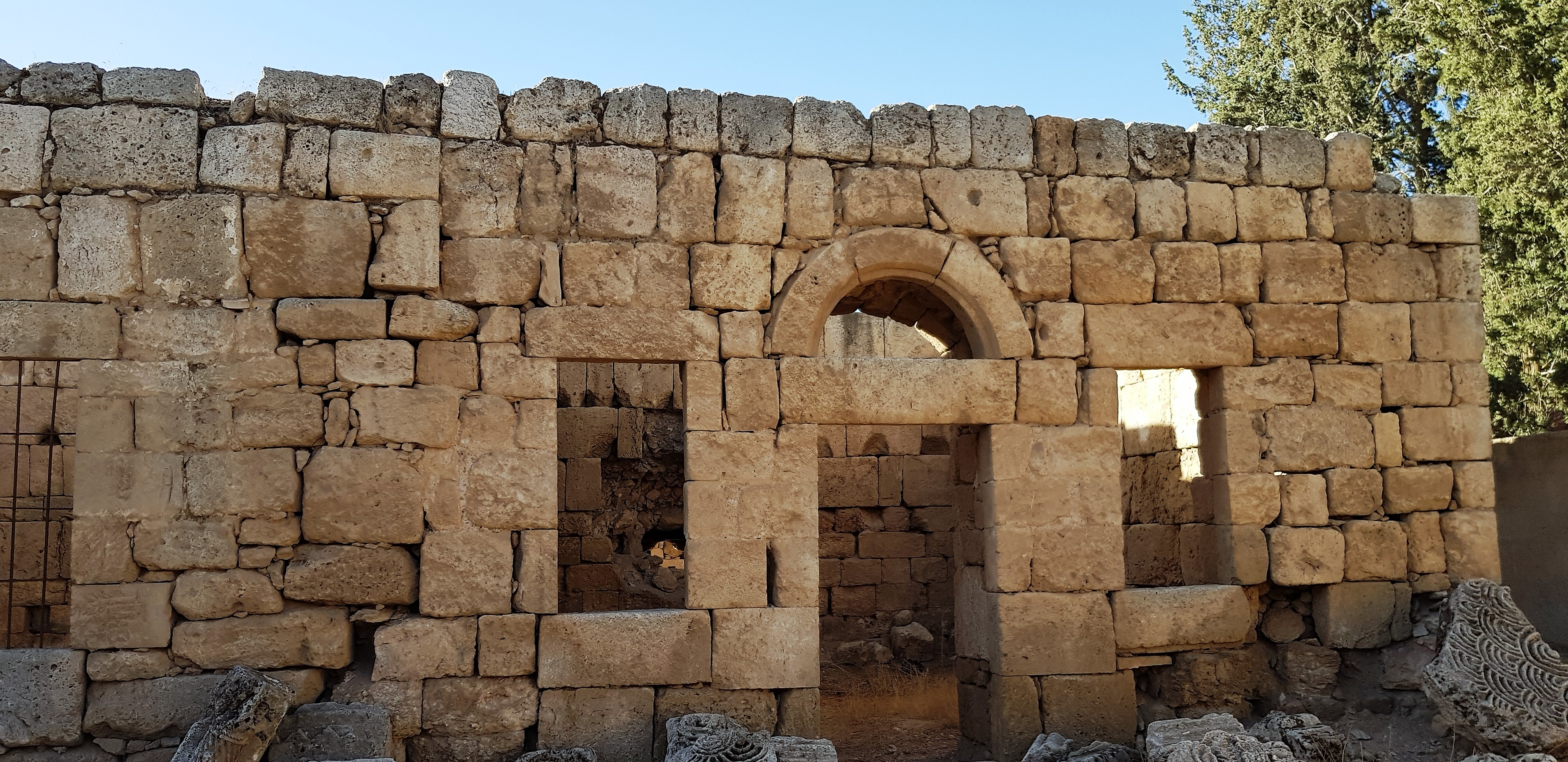 Front wall of a building at Qasr al-Qastal complex.